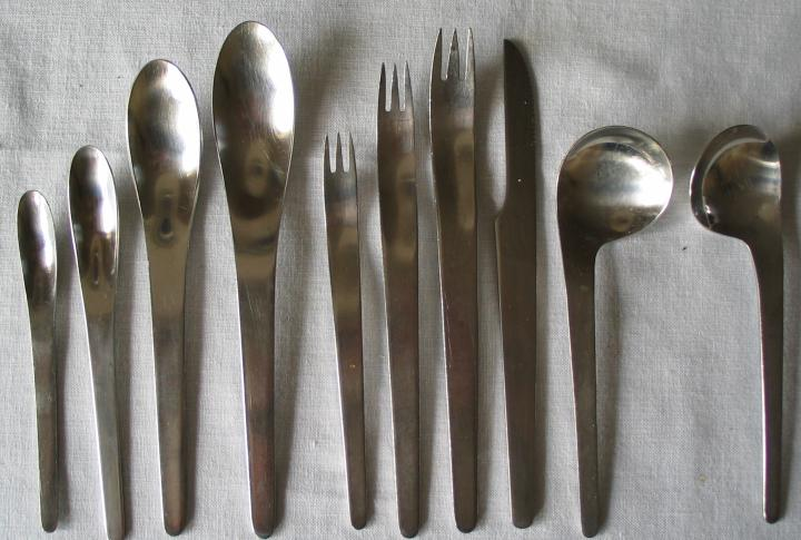 Arnej Jacobsen - cutlery